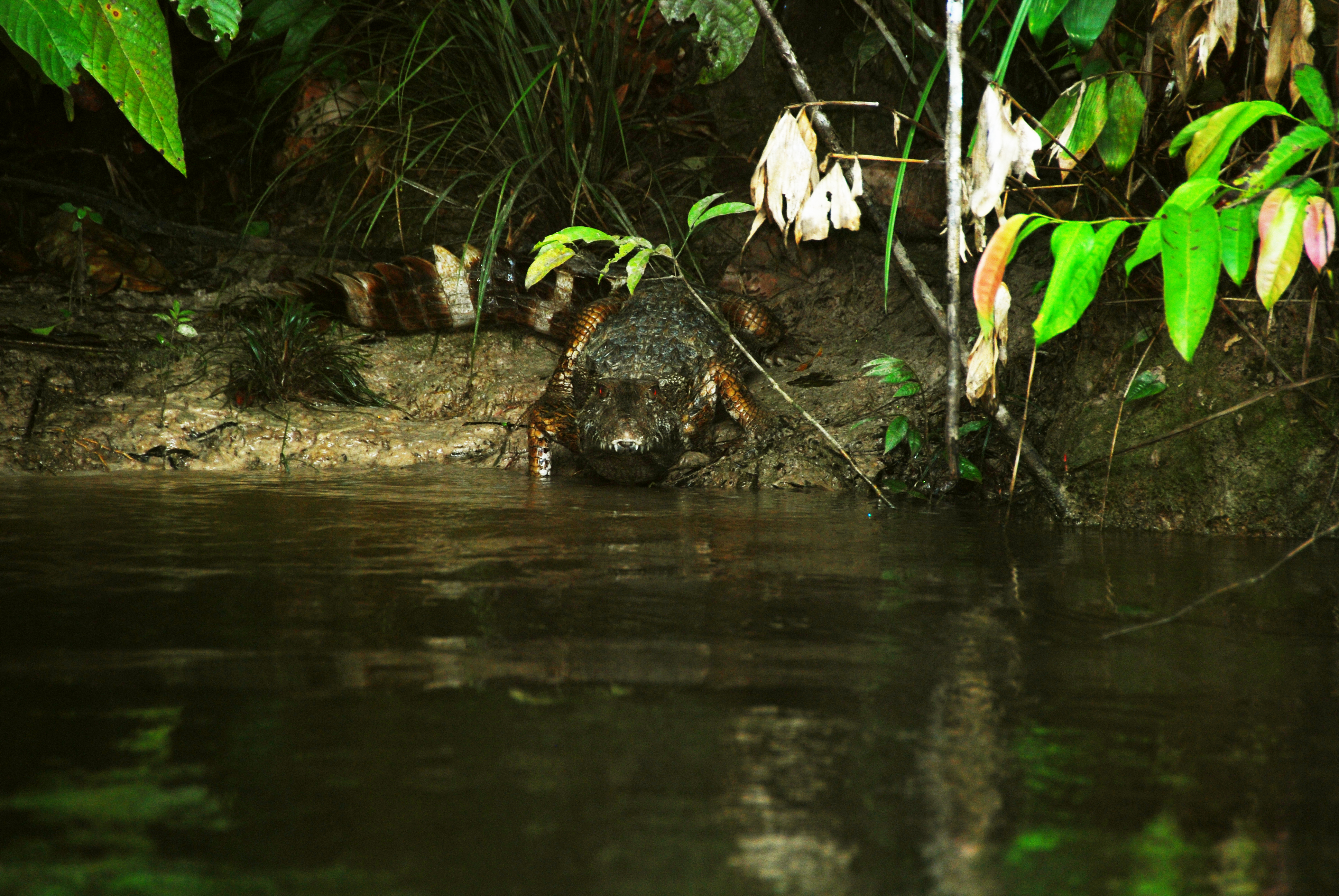 Smooth-fronted Caiman (Paleosuchus trigonatus) Local: Anaxiqui River, Amazonas, Brazil